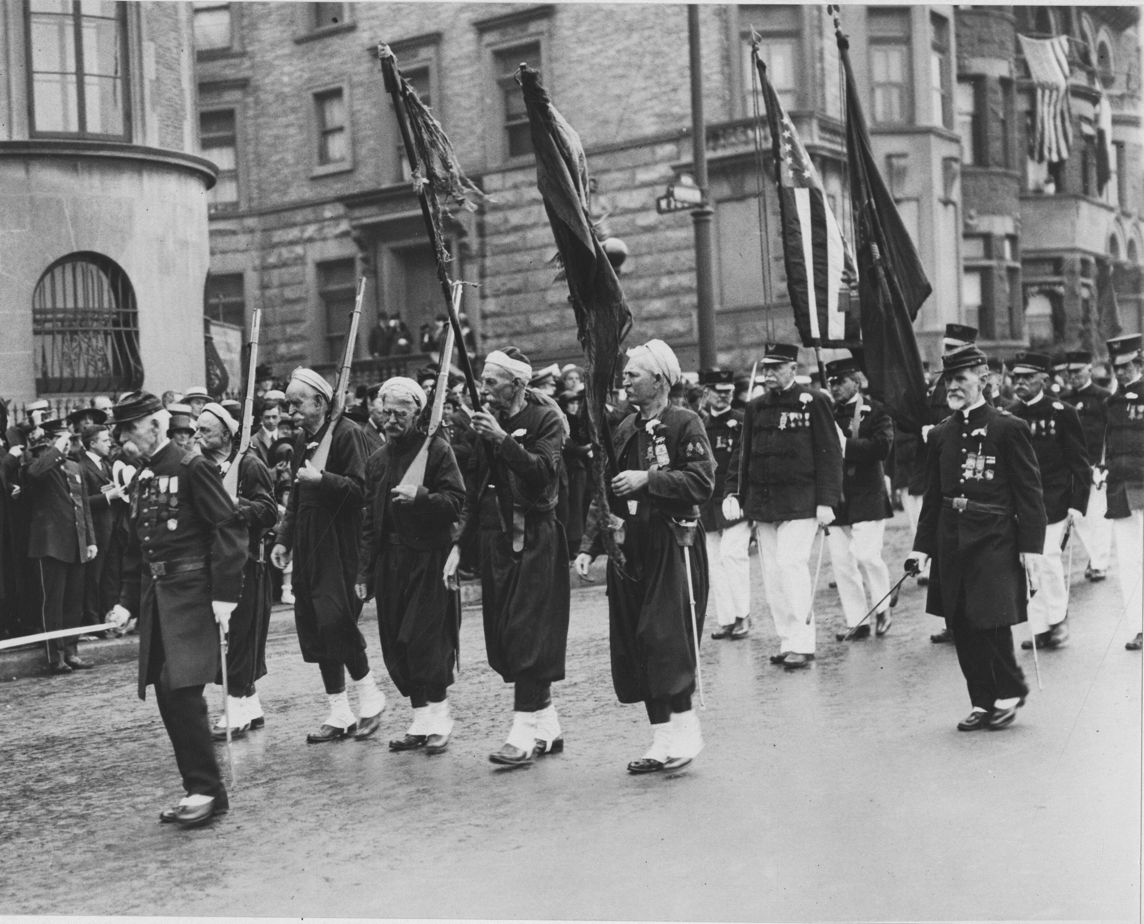 Scope and content: Date Taken: 5/30/1918 Photographer: Hearst Pathe News #45